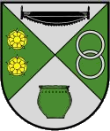 Coat of arms of Brieden